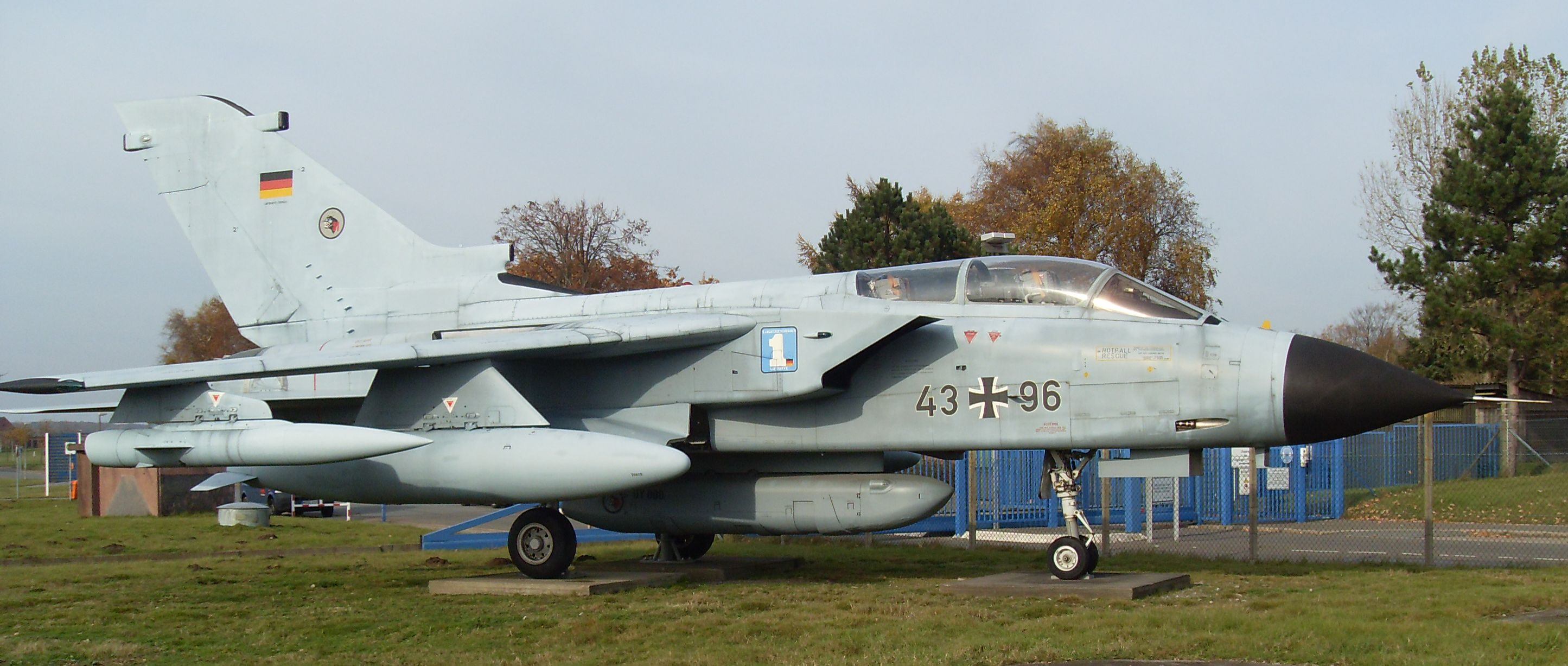 German Tornado at the air base in Jagel close to Schleswig